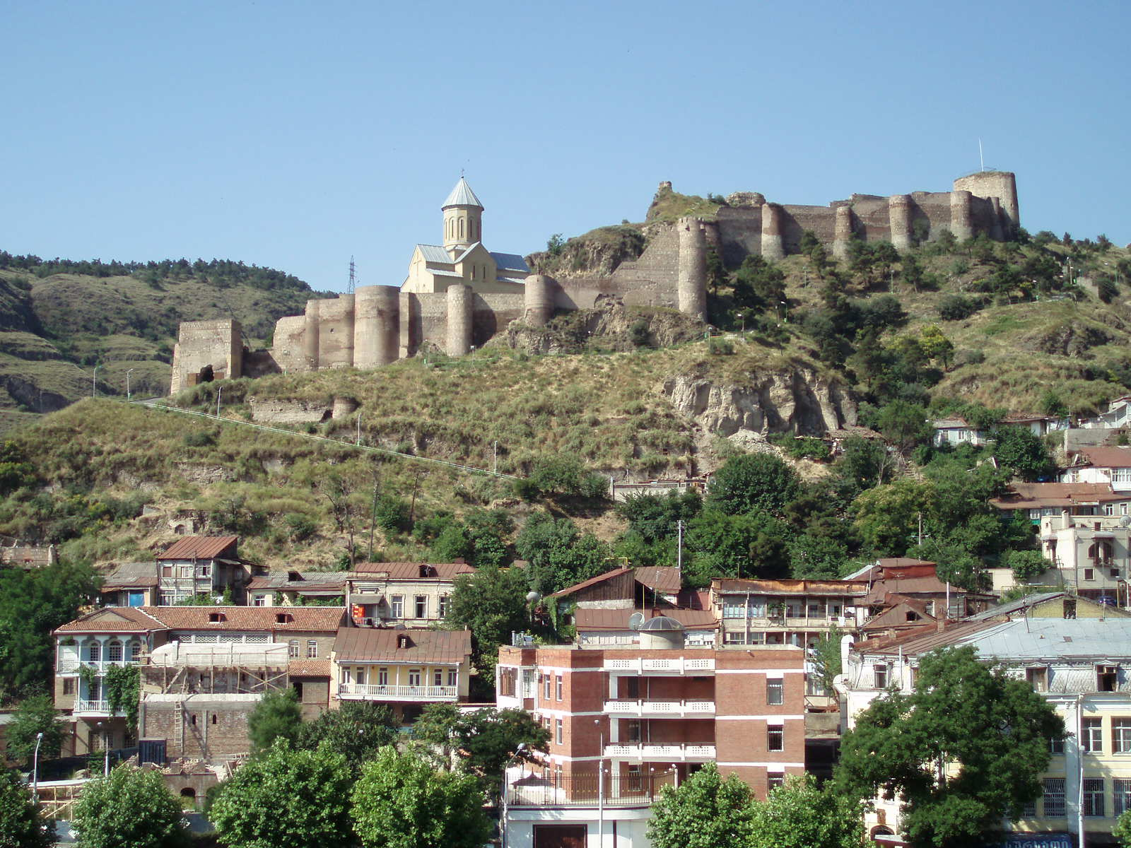 Photo from the set "Armenia Georgia 2007" by David Holt.